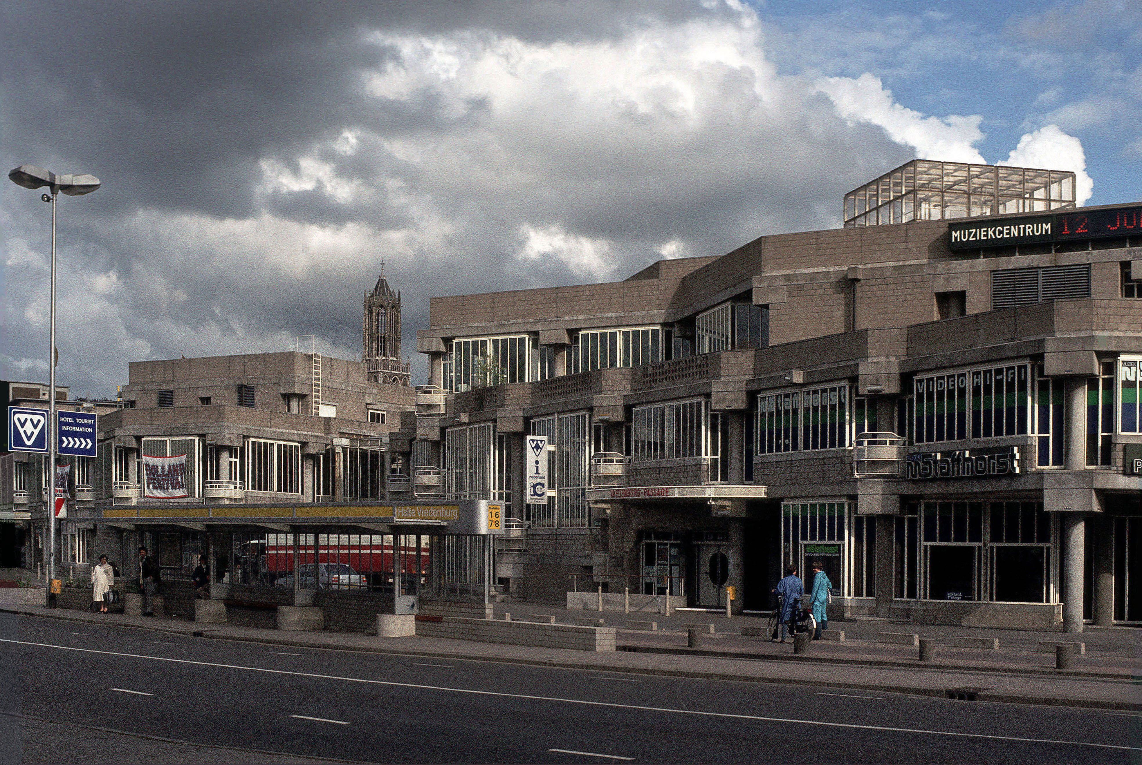 "Vredenburg" Music Centre in Utrecht, 1978 (Arch. Herman Hertzberger)